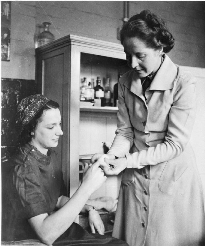 Women's Factory War work at Slough Training Centre, England, UK, 1941 Betty Pridie receives some first aid for a sore finger from her female supervisor in Slough Training Centre's medical room.